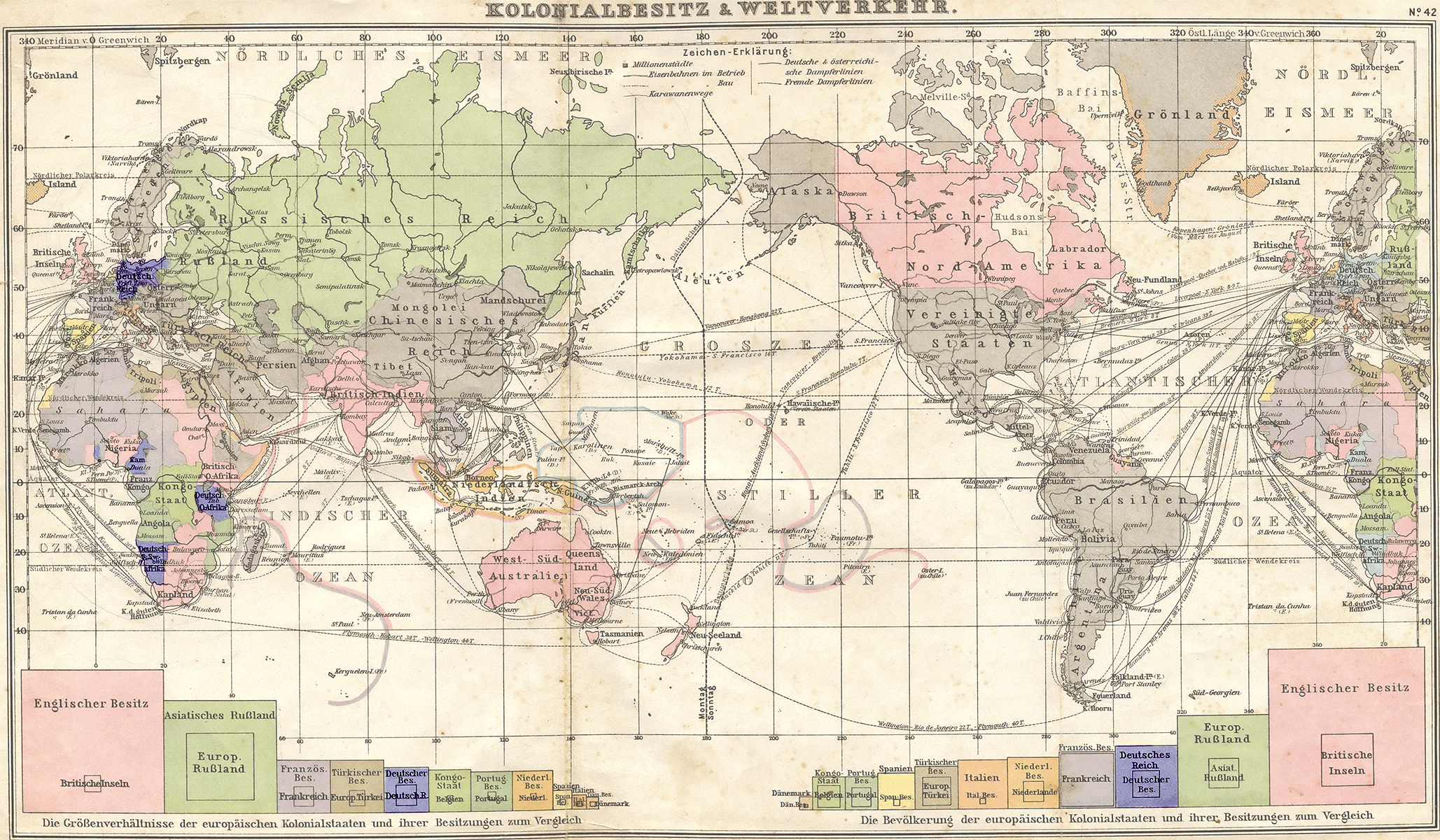 Image:Kolonialbesitz.png with intensified blue (for german colonies)